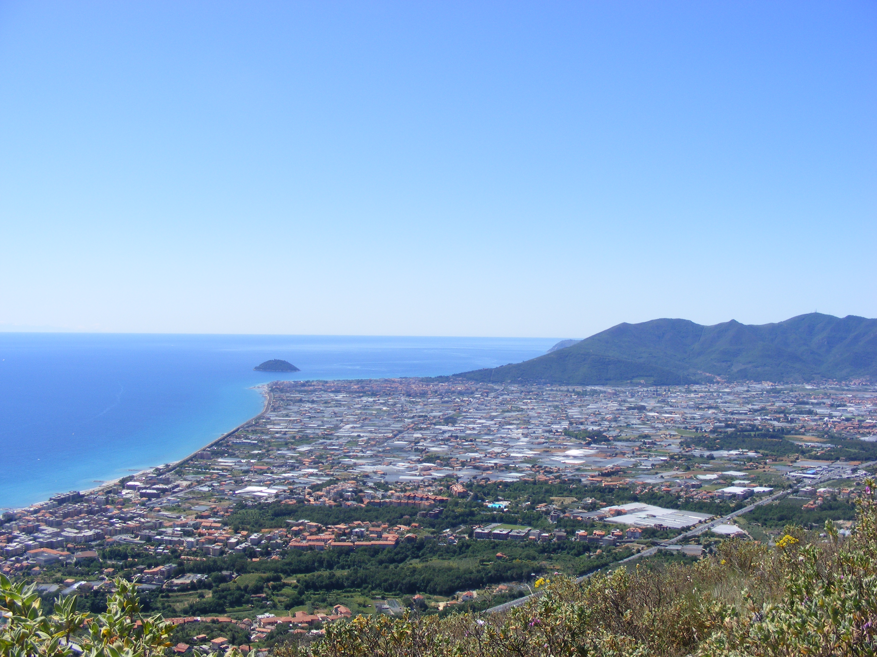 Overview town Ceriale, Italy